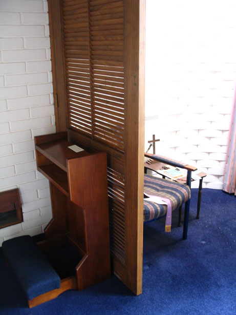 Modern confessional in the Church of the Holy Name, Dunedin, New Zealand. The penitent has the option to either kneel on the kneeler or sit in a chair facing the priest (not shown)